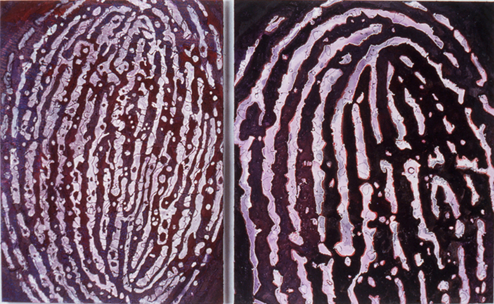 Mixed media painting by artist Merle Temkin, Couple, diptych, Museum of Art & Design collection; acrylic paint, dye, thread on canvas; 46" x 76", 2003